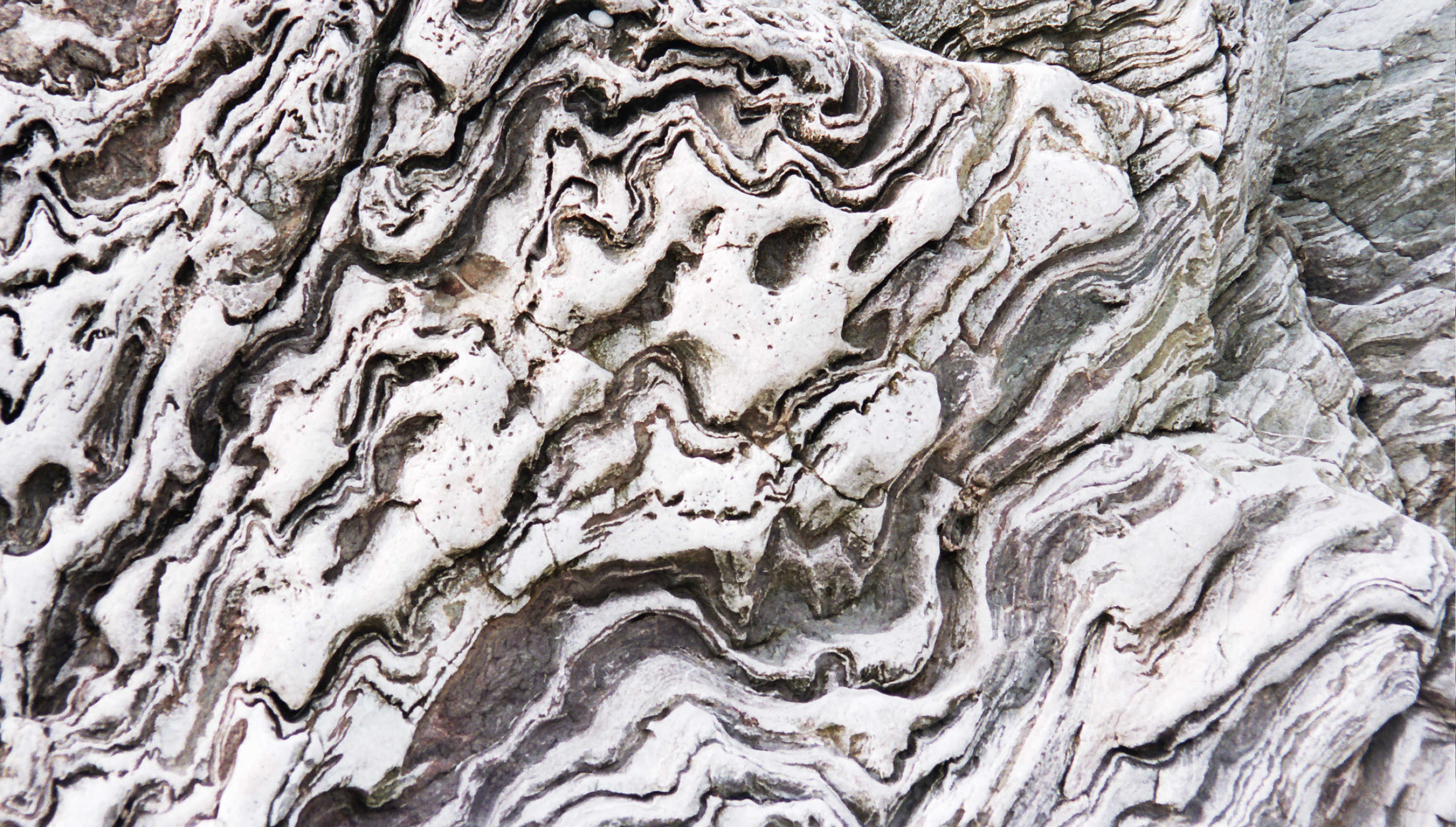 Folded and refolded layers of Boyne Limestone Formation (part of the Tayvallich Subgroup, the upper part of the Argyll Group of the Dalradian Supergroup) at Boyne Bay near Portsoy in Aberdeenshire, Scotland. Here it is exposed to the wind and sea and is much etched as a result. Scale: about 1 metre across. The limestone has been metamorphosed.